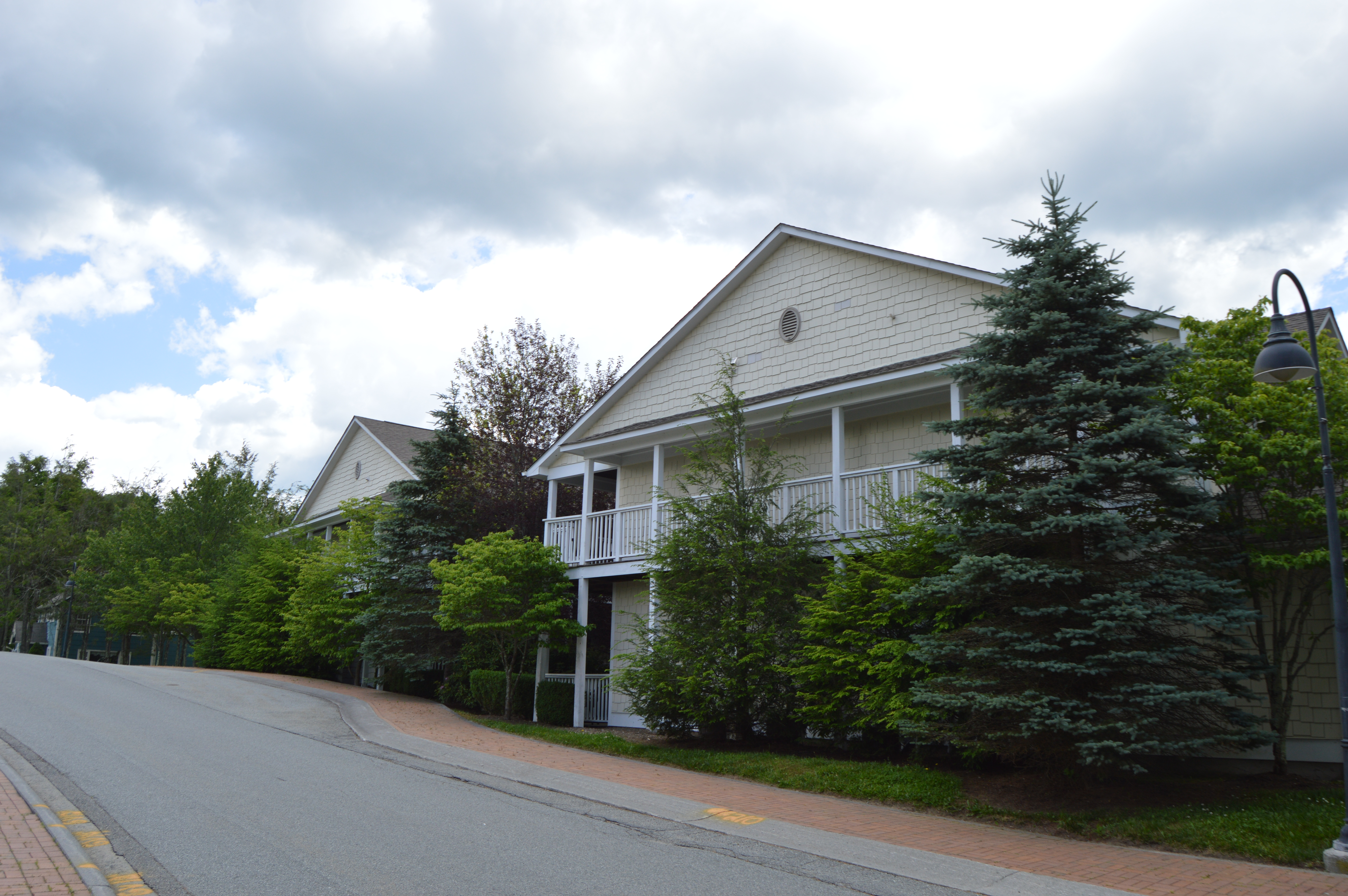 Apartments on the site of the former Banner Oak Hotel, located on Banner Road south of College Drive in Banner Elk, North Carolina, United States. The hotel was listed on the National Register of Historic Places in 2000, and it has not yet officially been removed from the Register.